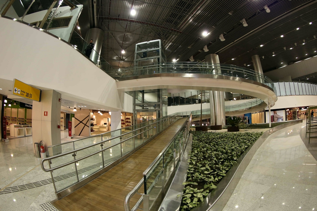 Interior do Terminal 3 do Aeroporto Internacional de São Paulo-Guarulhos